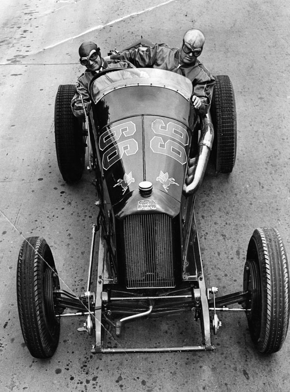 Posed behind the wheel of his racer is driver Ralph De Palma and to his left is his mechanician, Lindley Bothwell.